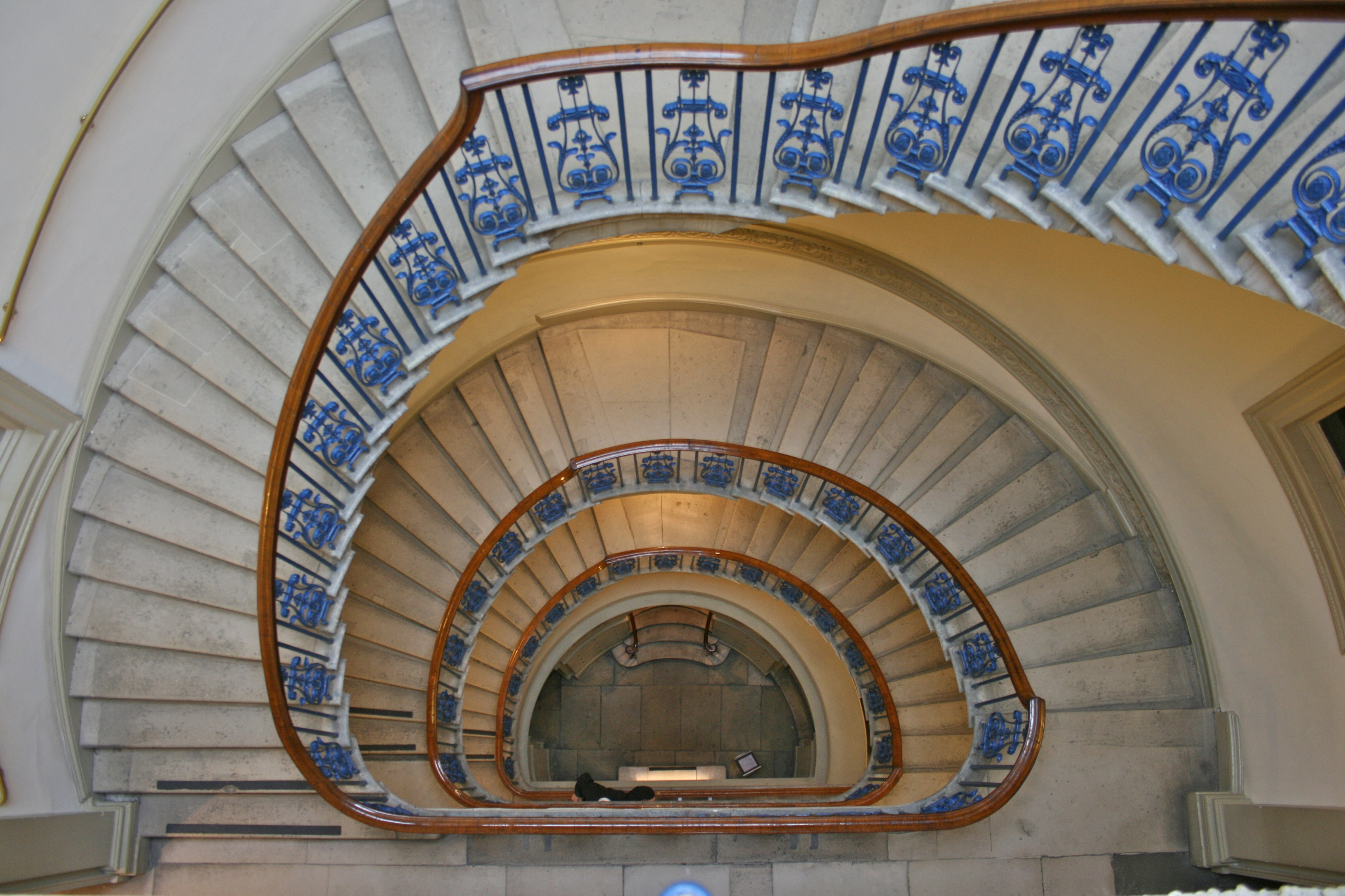 Staircase at the Courtauld Gallery, London, England.